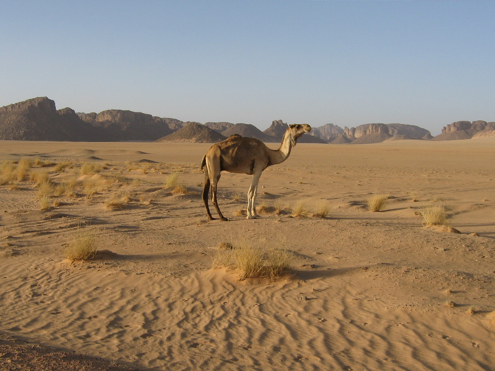 a camel in djanet Tassili N'ajjer Desert of Algeria جمل وحيد بعيد عن القطيع في منطقة الطاسيلي بجانت في الصحراء الجزائرية